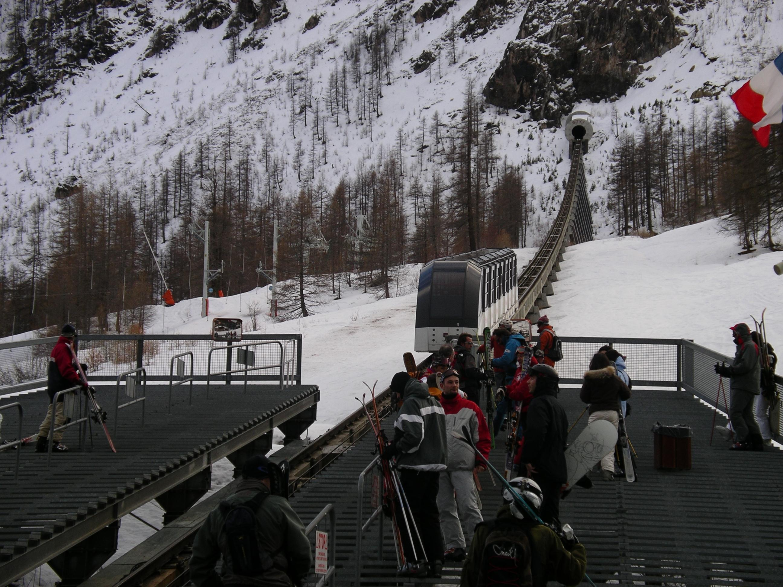 The Funival to the summit of Belvedere